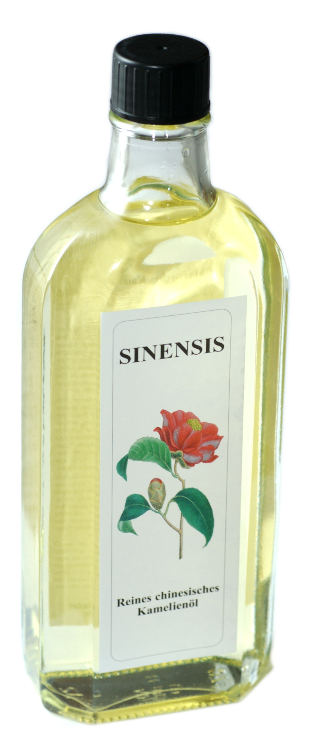 Chinese Tea seed oil